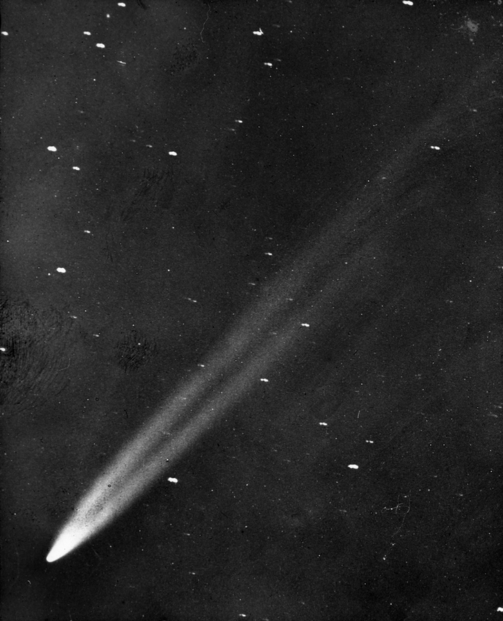 Great comet of 1901, C/1901 G1 (27 minute exposure). Photograph taken on the United States Naval Observatory expedition to Sumatra. The eleven member team, of which astronomer Edward Emerson Barnard of Yerkes Observatory was a participant, recorded the total solar eclipse of May 18, 1901.